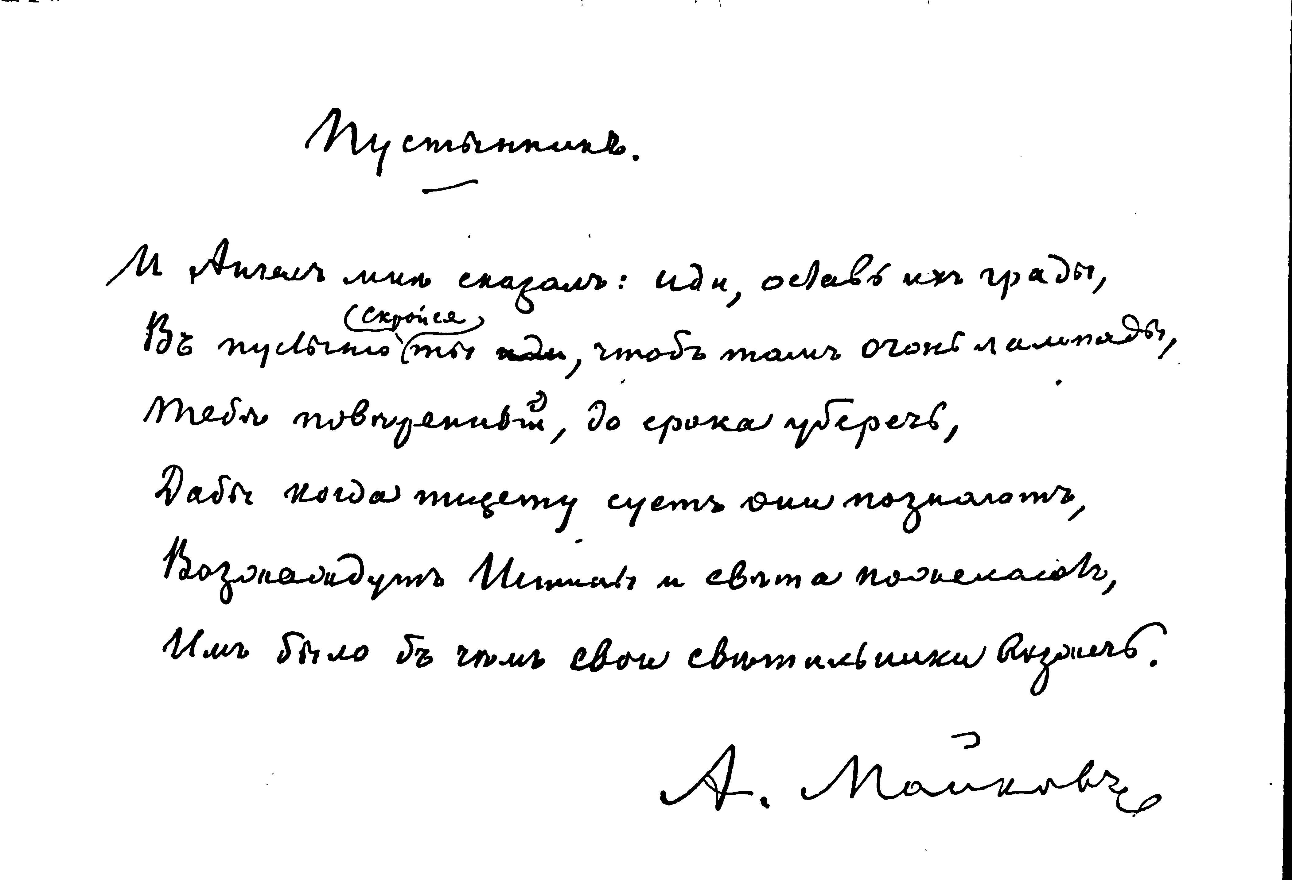 autograph by Russian poet Apollon Maikov (1821-1897) of his poem "Pustinnik" (Hermit)